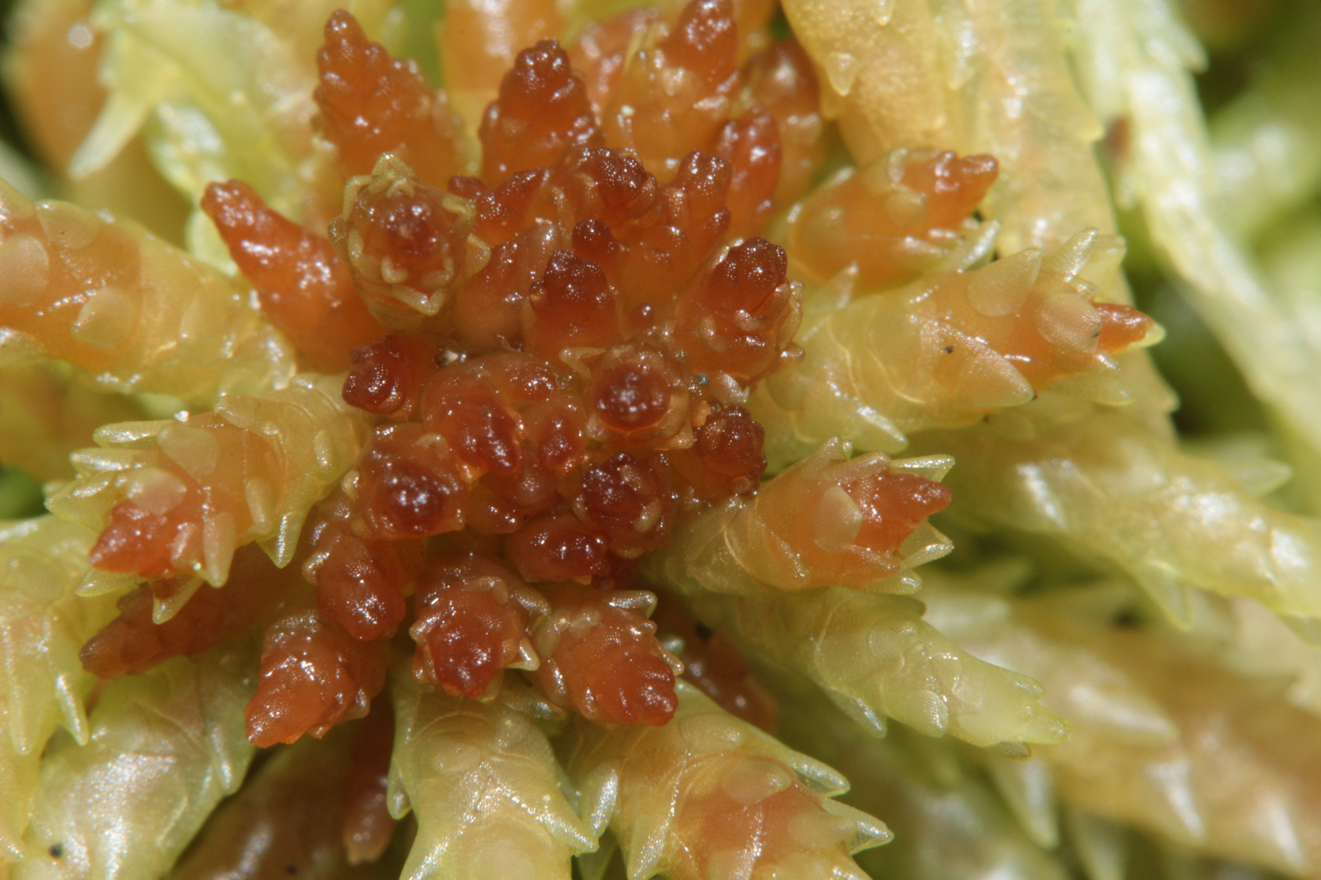 Sphagnum palustre